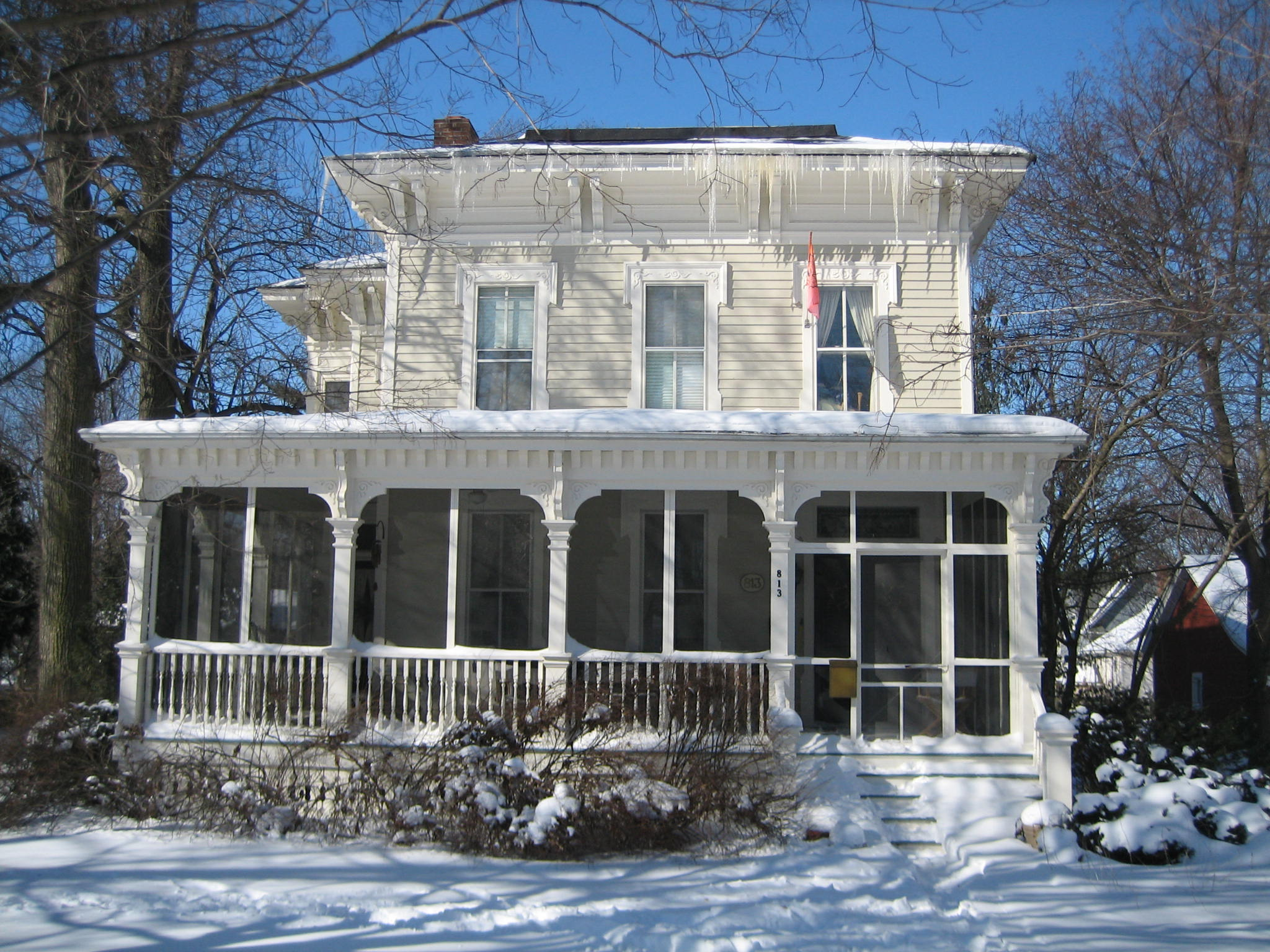 813 Somonauk St, Dr. Olin H. Smith House, Sycamore, Illinois. Sycamore Historic District, National Register of Historic Places.